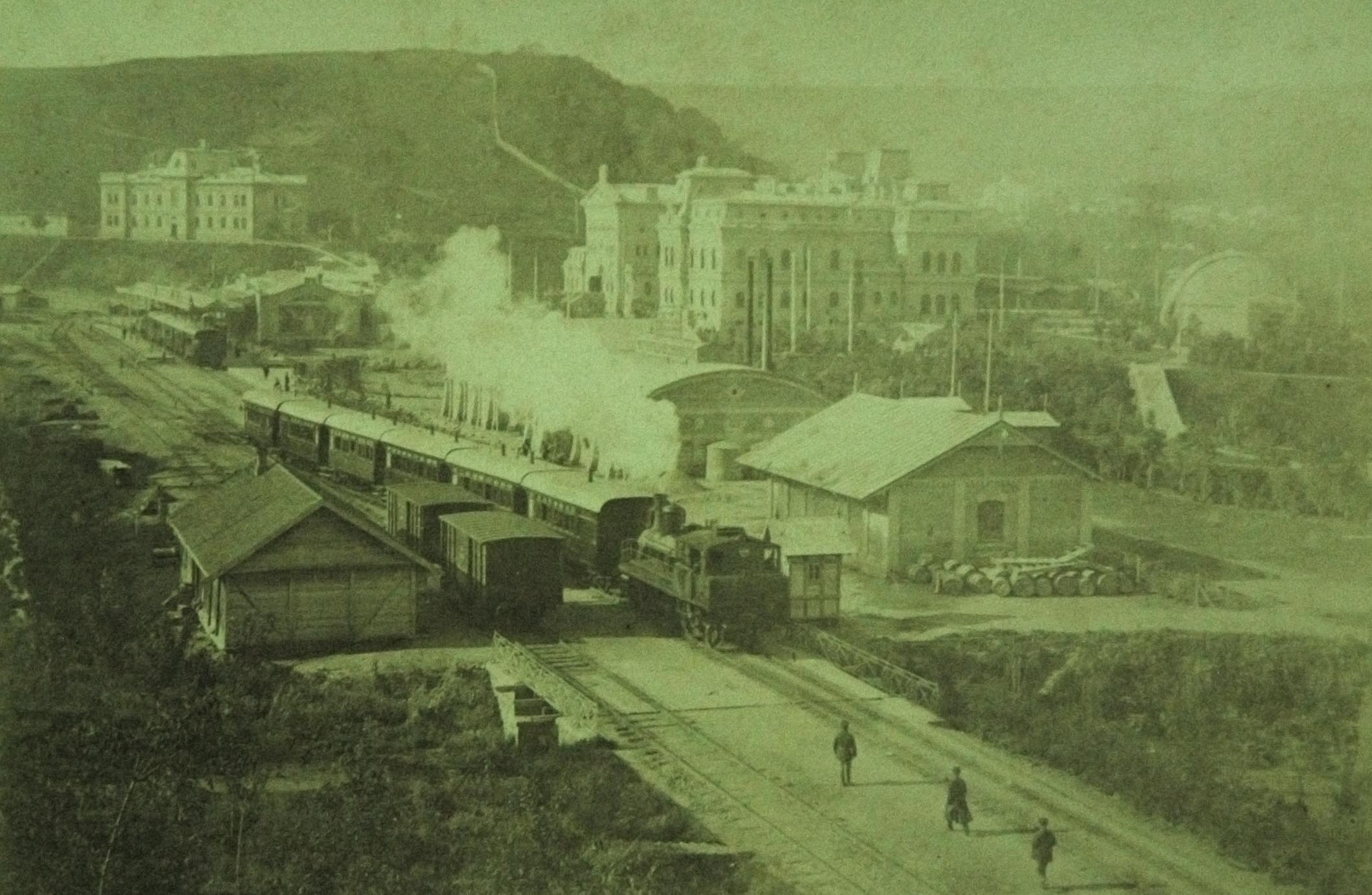 Kislovodsk railway station and Kurzal